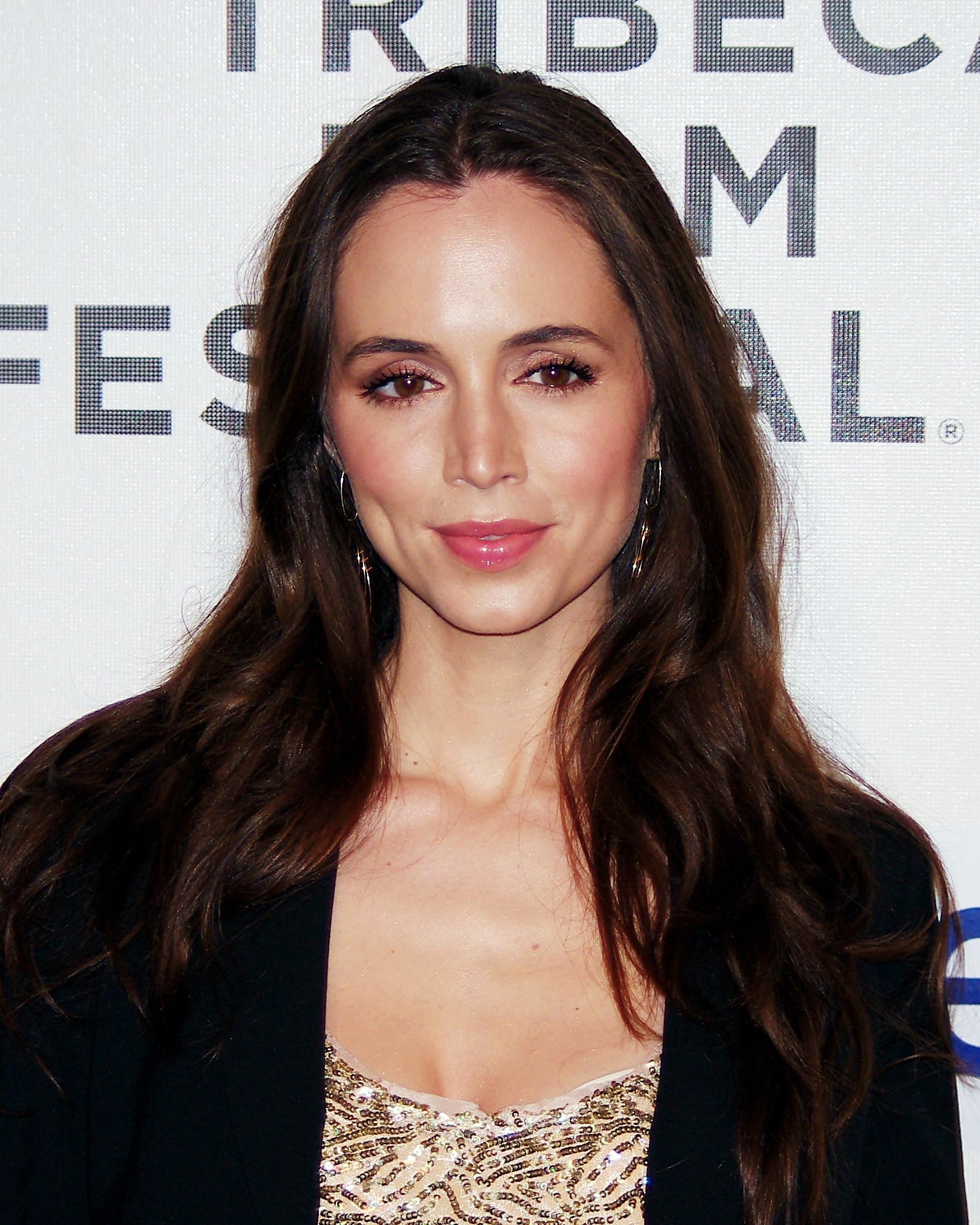 Eliza Dushku at the 2012 Tribeca Film Festival premiere of Struck by Lightning.